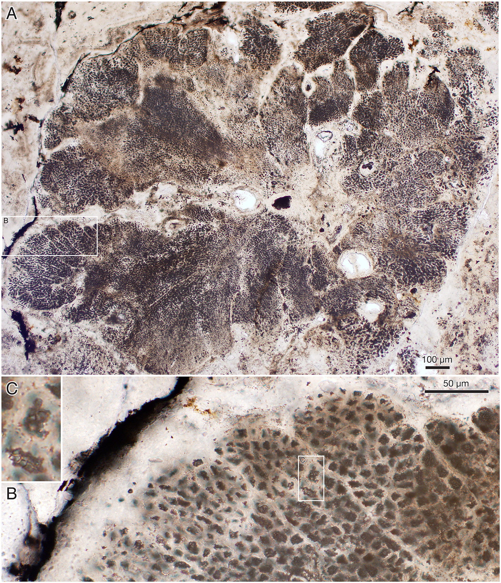 1.6 Ga Ramathallus lobatus specimen, the earliest known rhodophyte